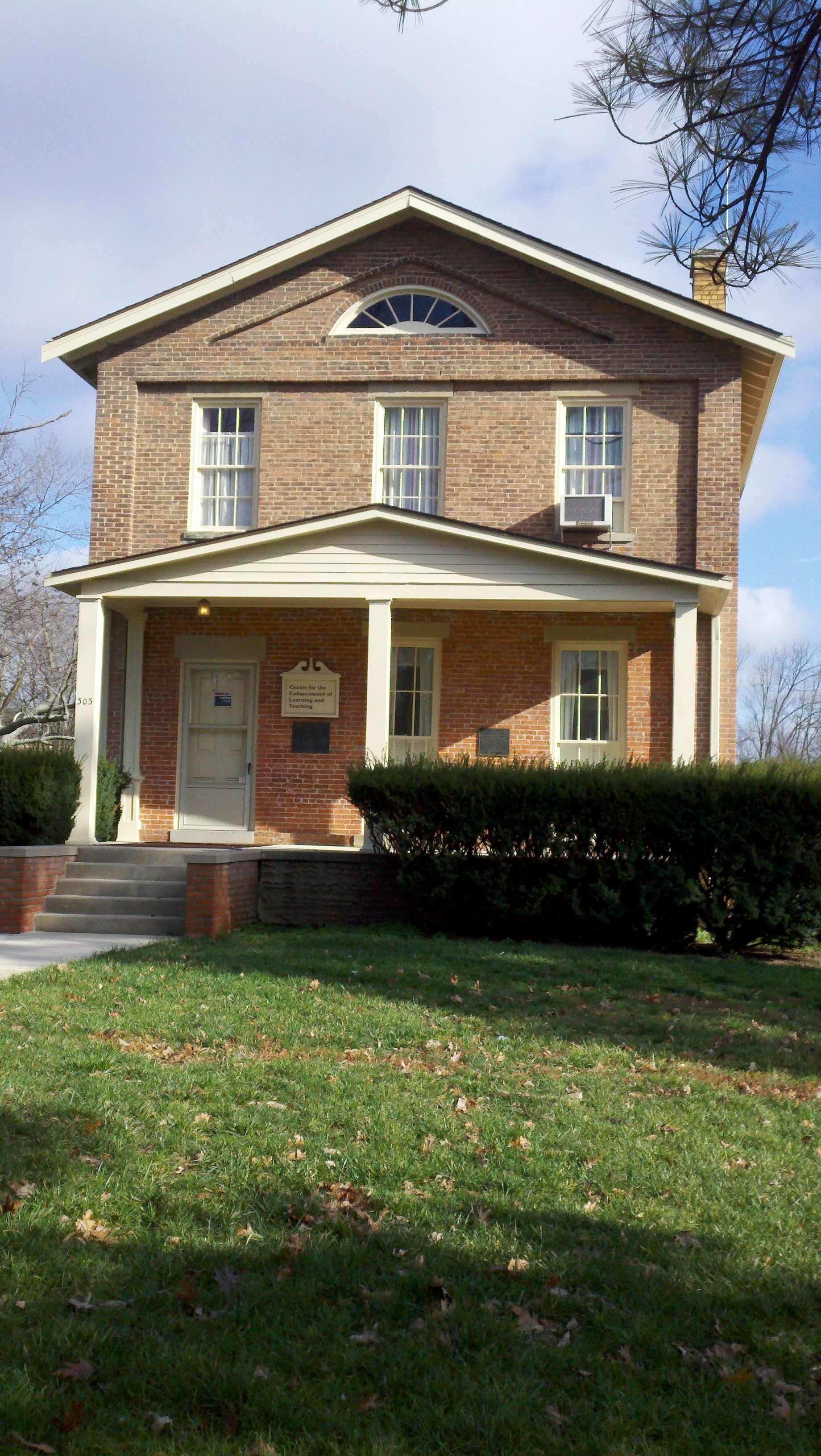 Recent Picture of Langstroth Cottage.